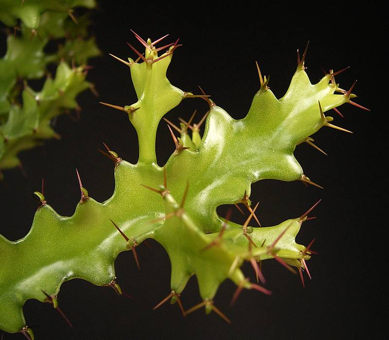 Euphorbia wakefieldii